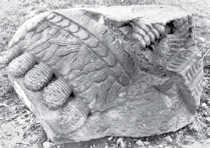 Fragment of a Coatlicue State at the National Museum of Anthropology